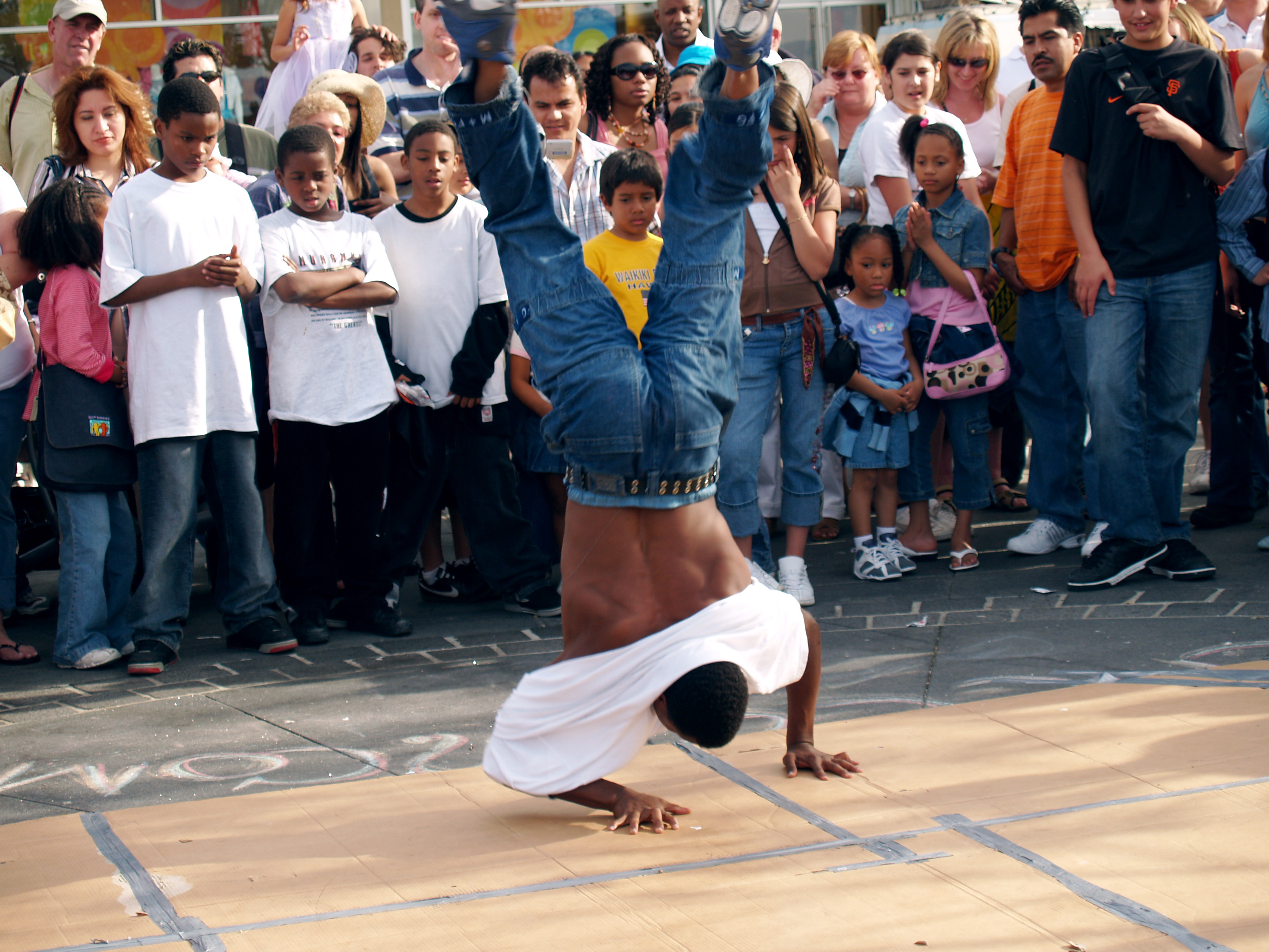 Breakdancer near Pier 41 at the Fisherman's Wharf. May 2006.